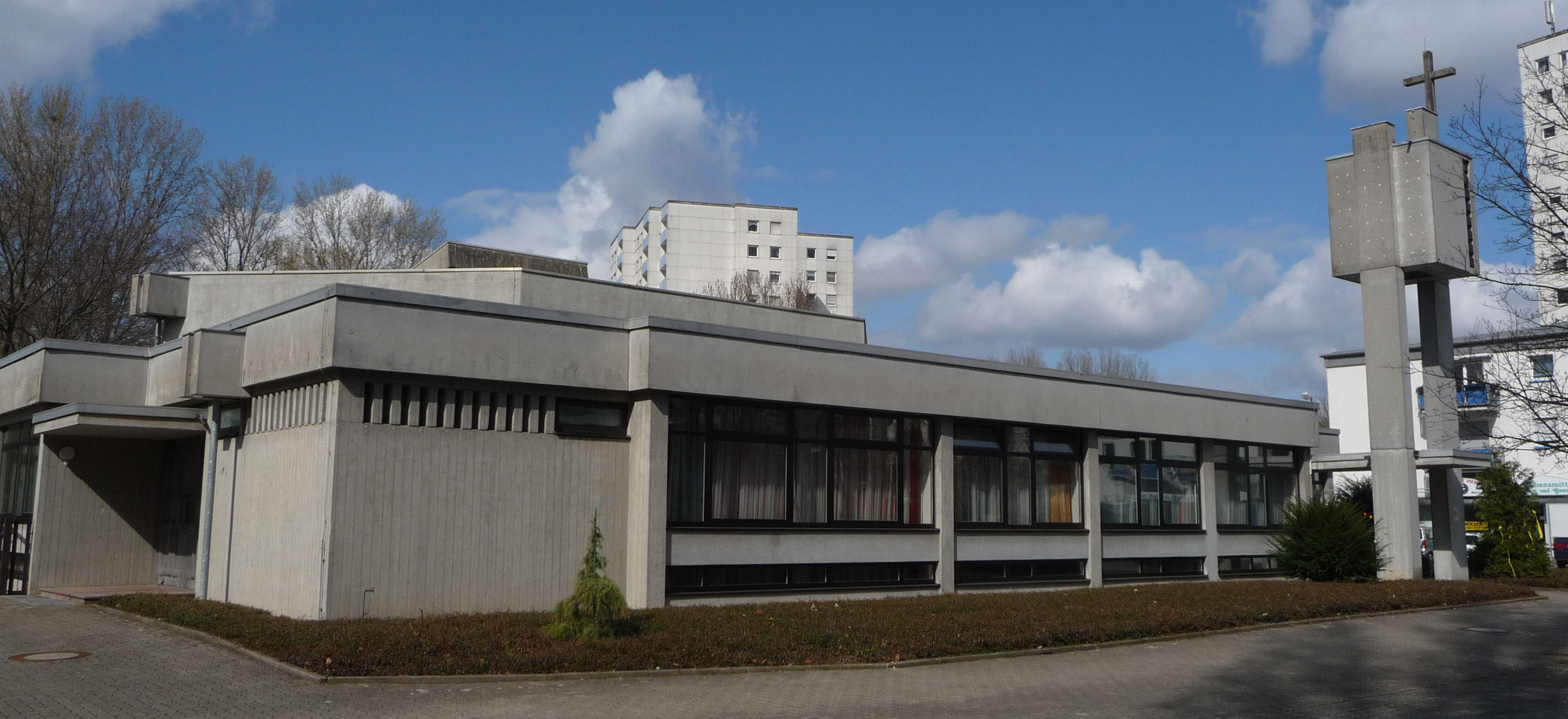 Church in Ludwigshafen, Germany